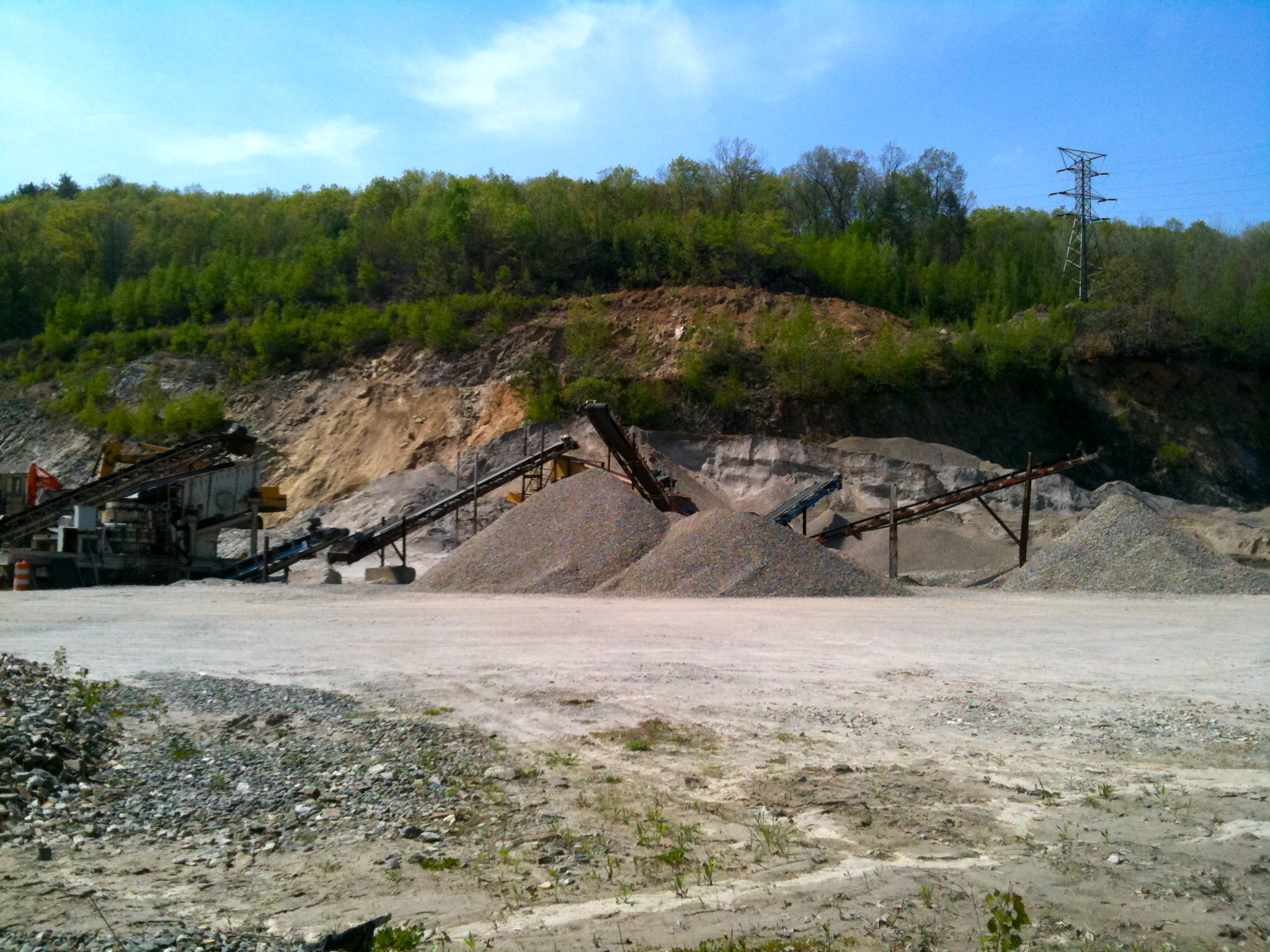 Quarry at end of Sheffield Street in Waterville, Waterbury. Right of way section at beginning of Hancock Brook Trail.